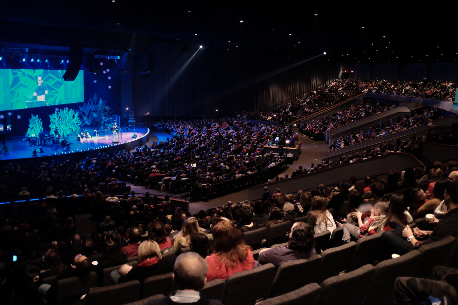 Rockford First Auditorium